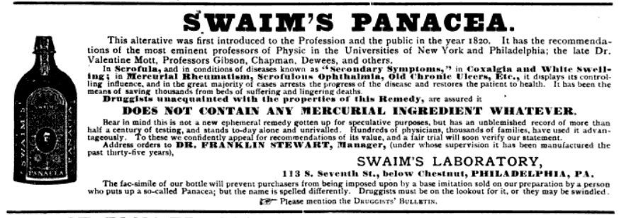 1890 advertisement for Swaim's Panacea in December 1890 issue of Druggists' Bulletin (Detroit, Michigan)